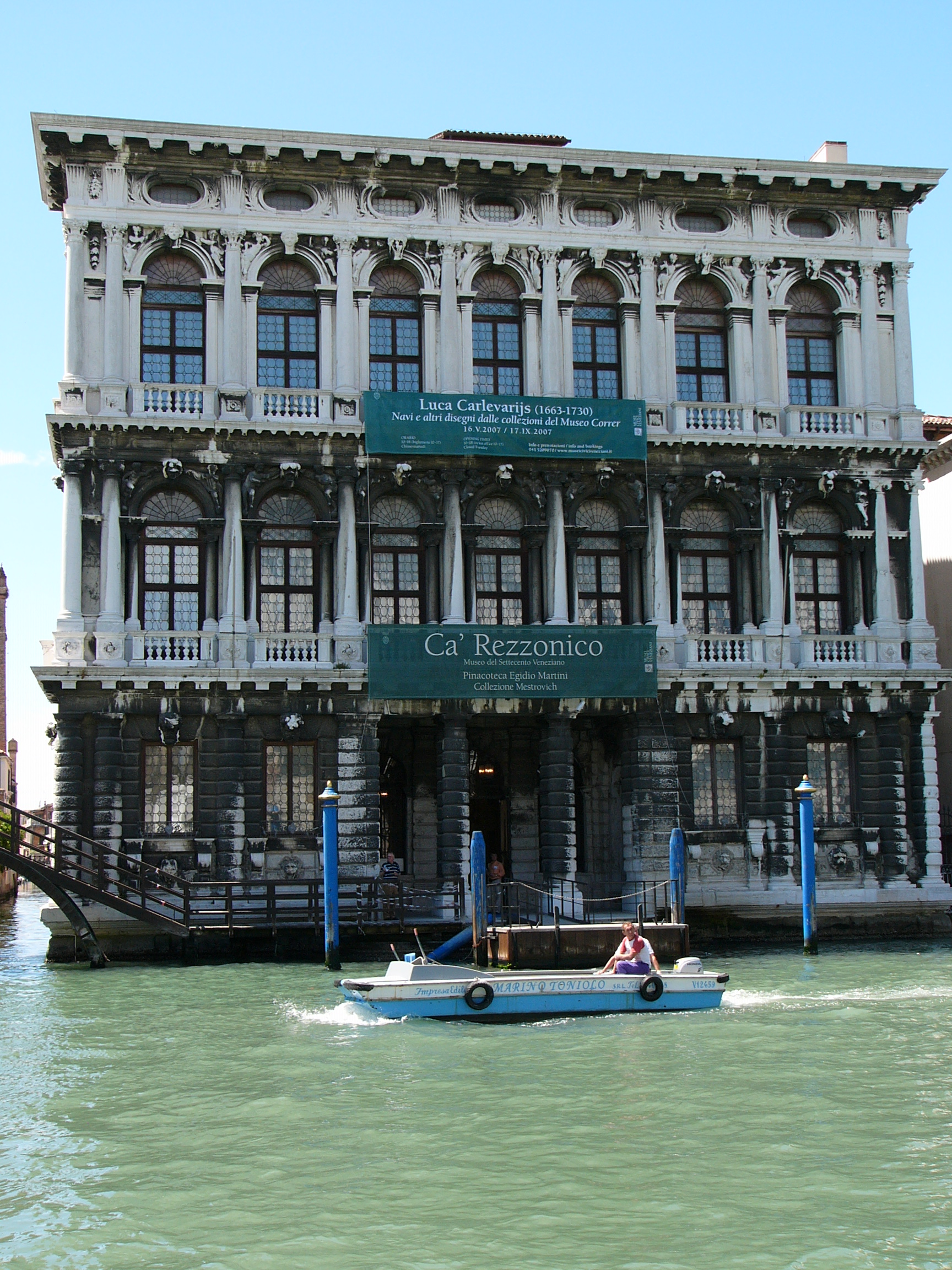 Ca' Rezzonico in Venice